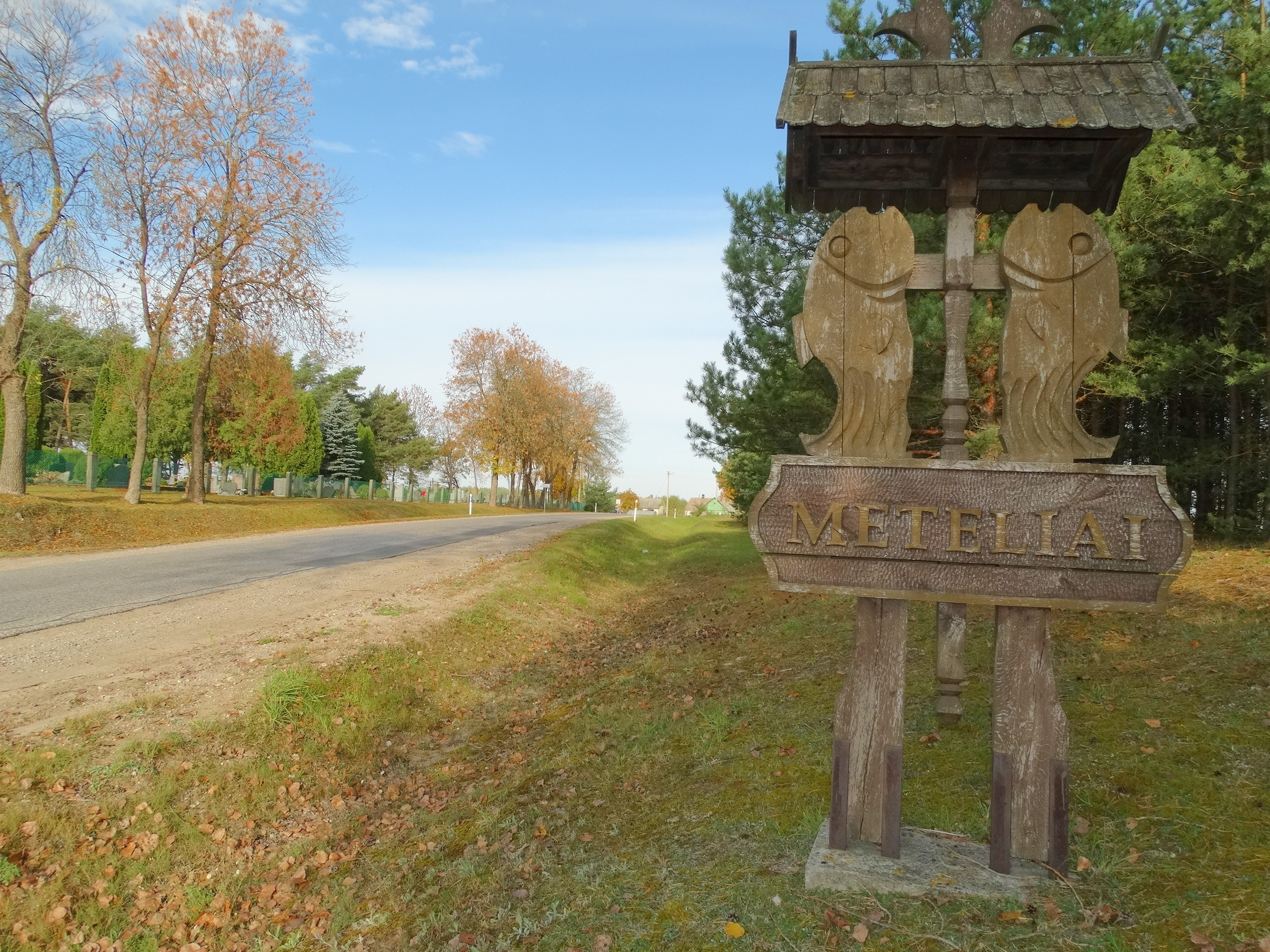 Meteliai, Lazdijai district, Lithuania